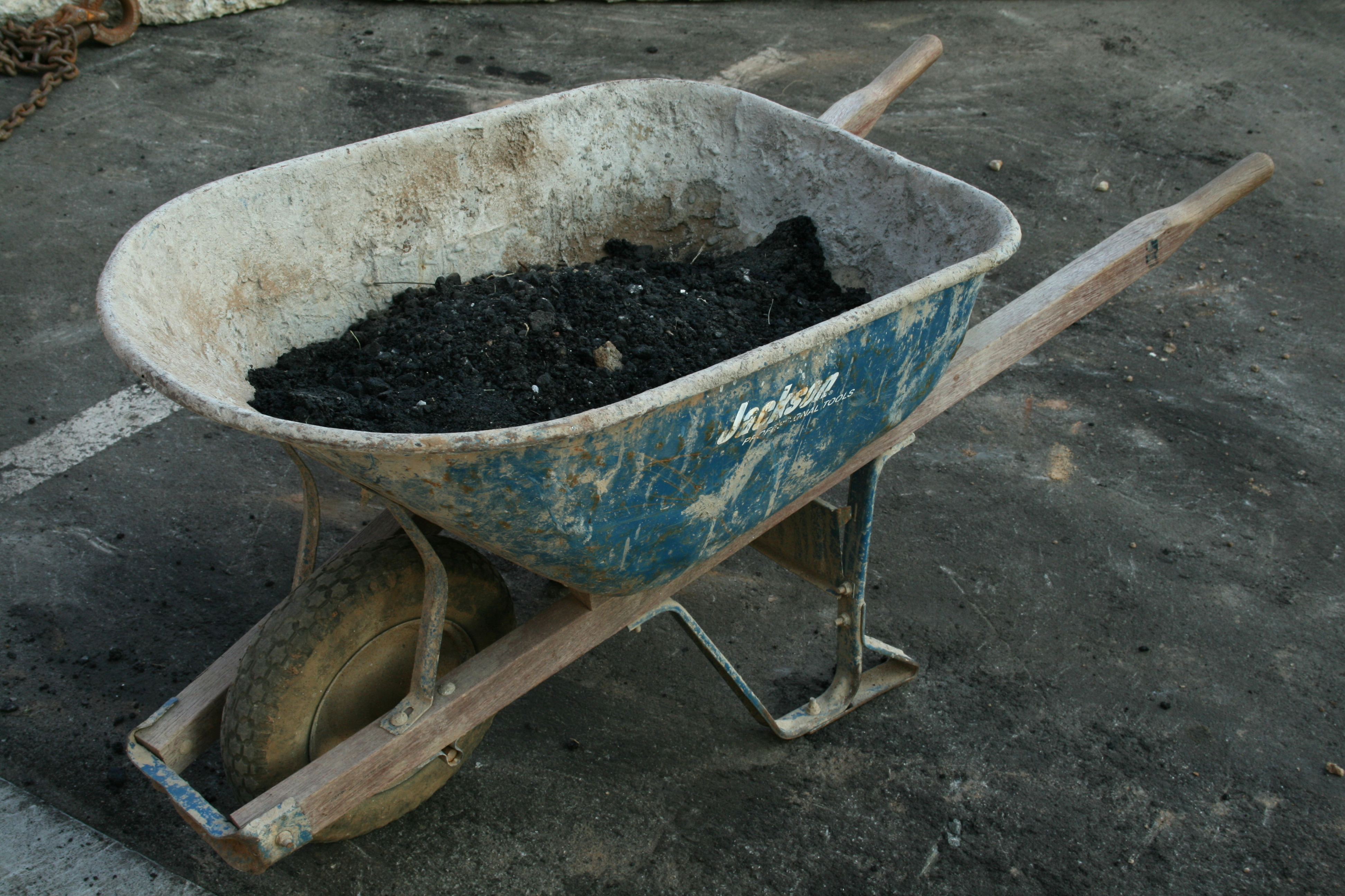 Wheelbarrow at a construction site at Duke University in Durham, North Carolina / USA.